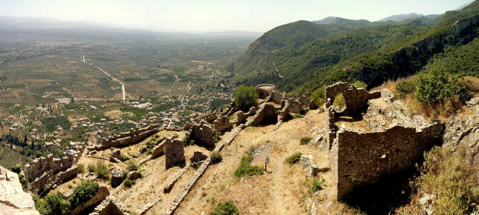 Mystras (Greek: Μυστράς, Μυζηθράς, Myzithras in the Chronicle of the Morea) is a fortified town and a former municipality in Laconia, Peloponnese, Greece. You can use the images for free. But a link to - I would be happy :)